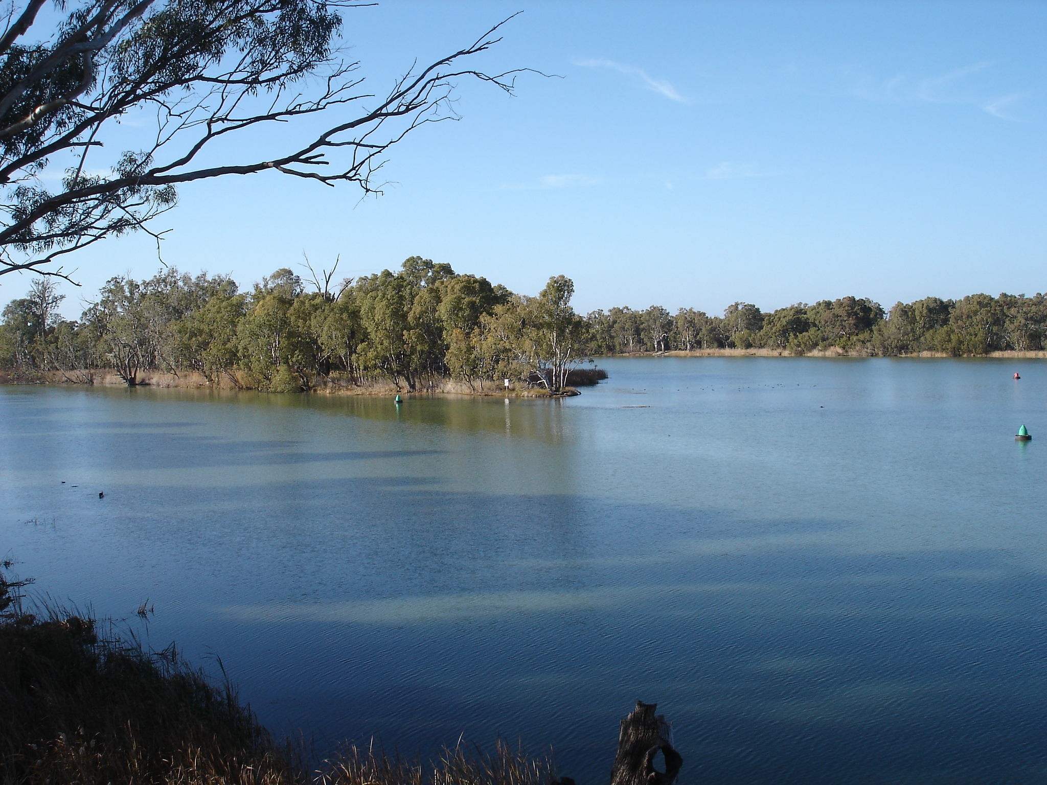 The confluence of the Darling River and Murray River at Wentworth, New South Wales